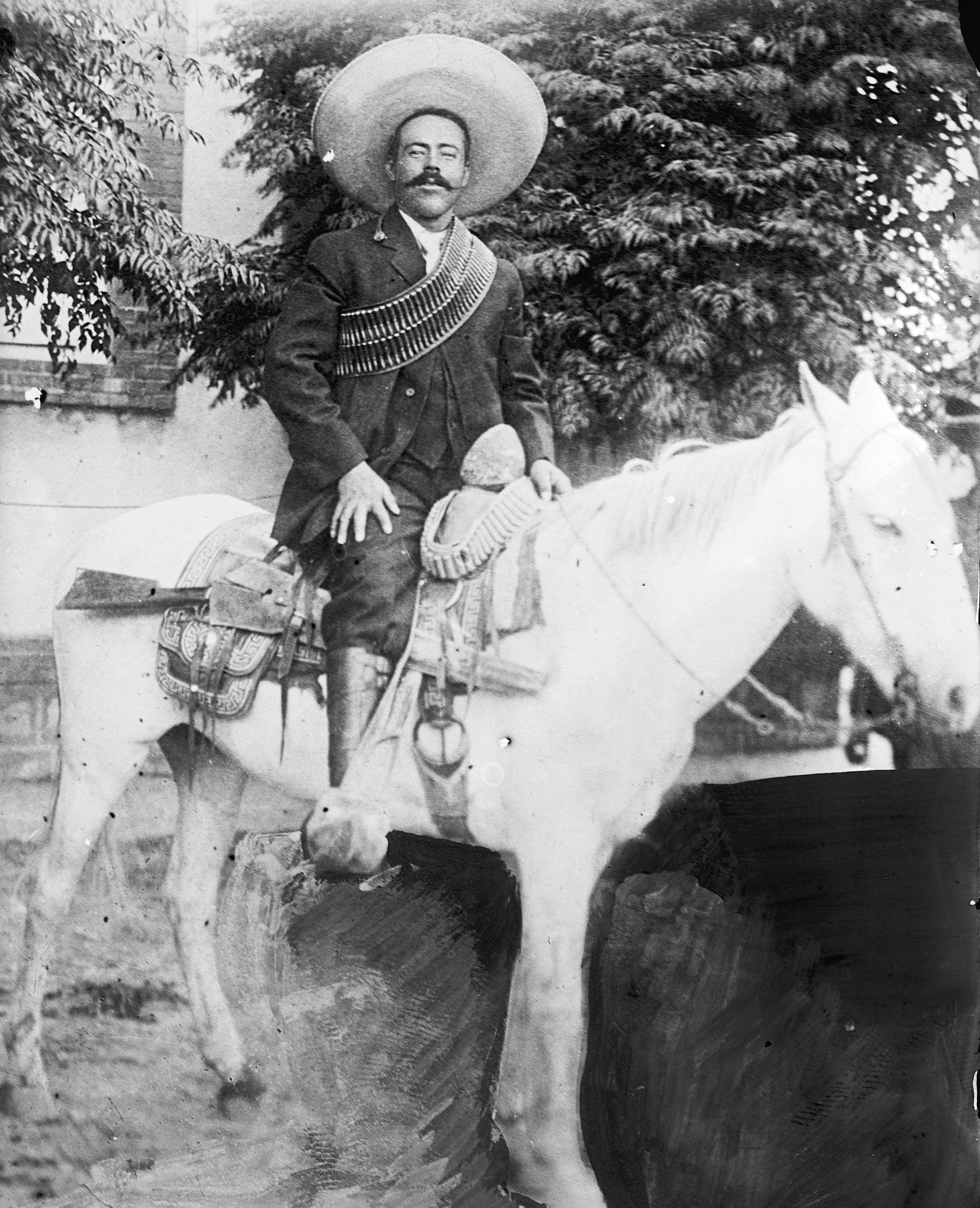 Doroteo Arango Arámbula (June 5, 1878 – July 23, 1923), better known as Francisco or "Pancho" Villa, a Mexican Revolutionary general.